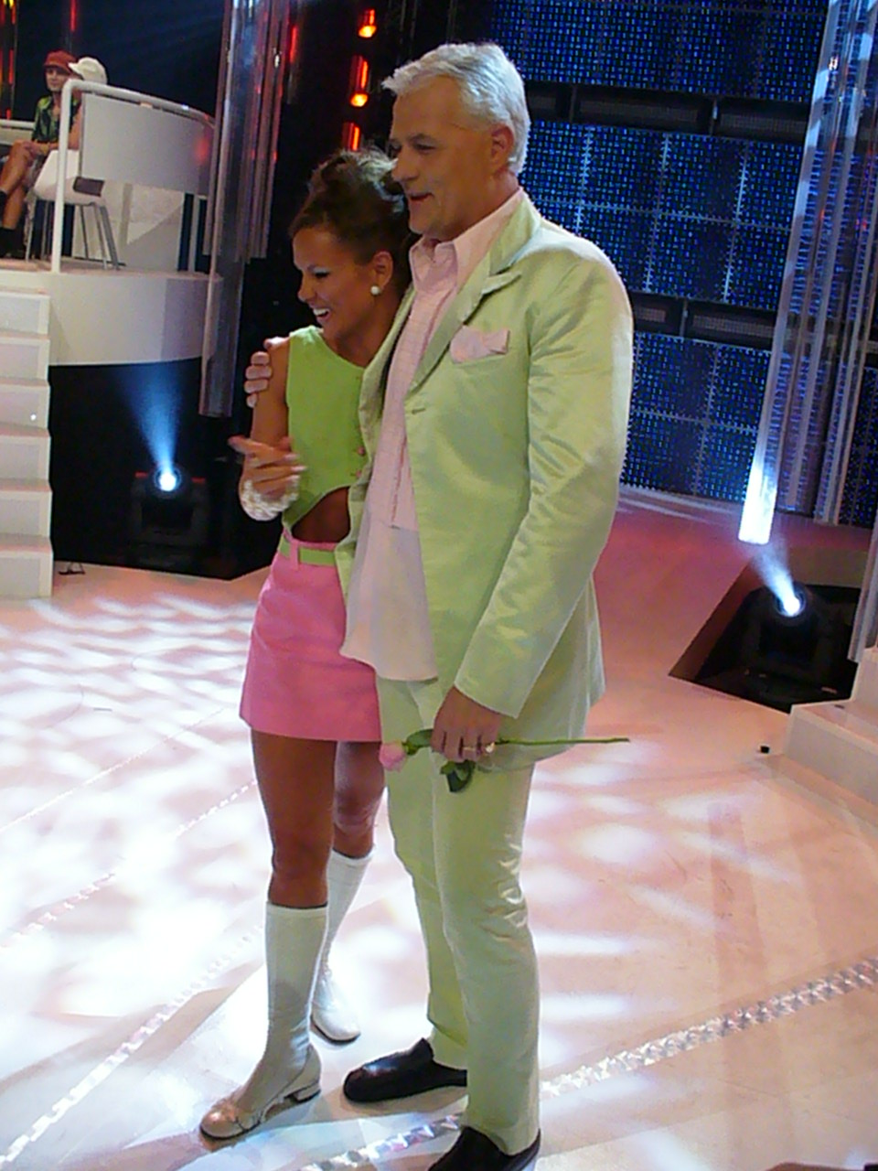 Linda Bengtzing and Glenn Hysén participating in Rampfeber. Photo by Yvwv.